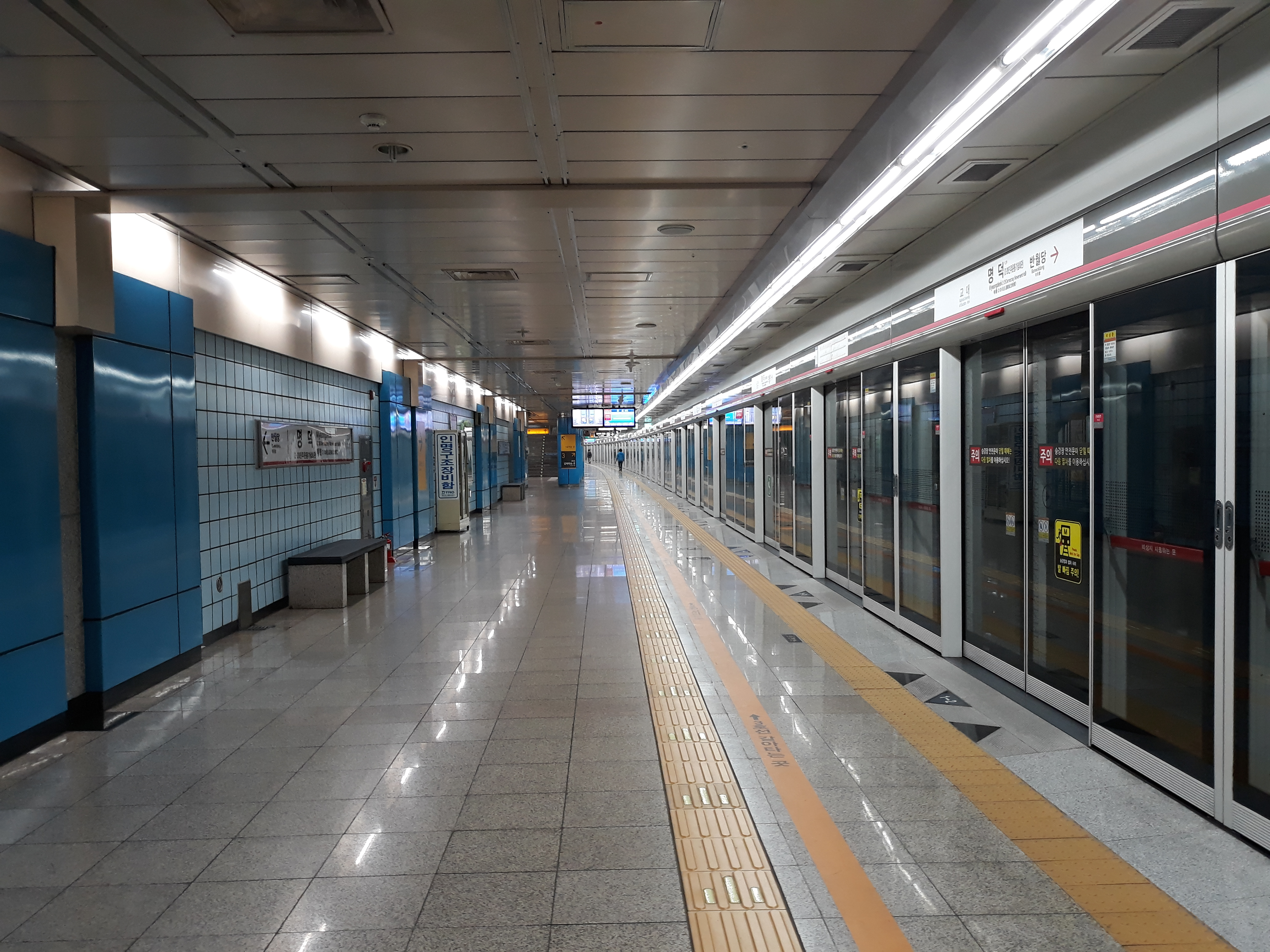 The platform for Ansim at Myeongdeok station on the Daegu metro Line 1